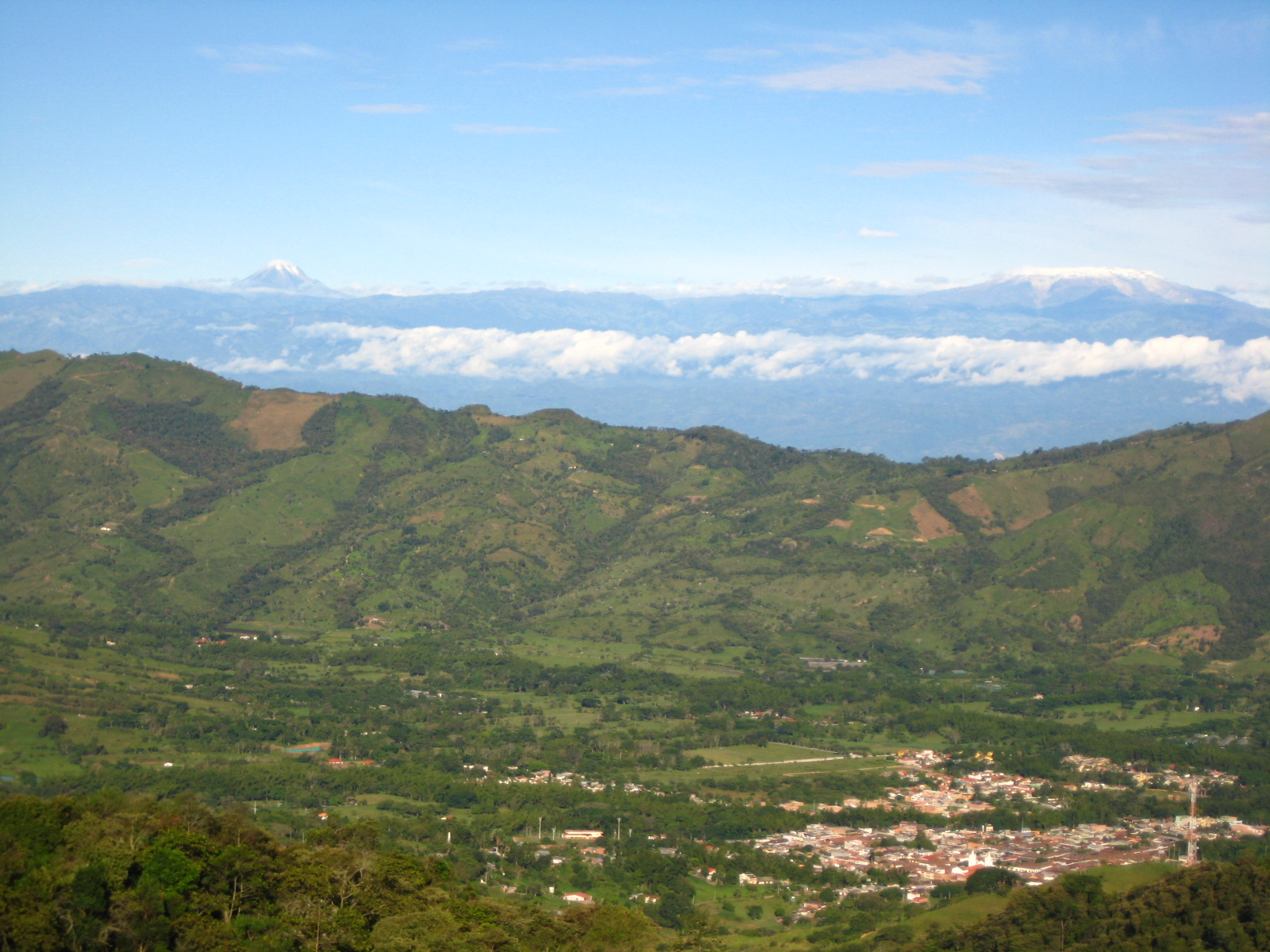 Nevado del Ruiz desde Guaduas, Cundinamarca